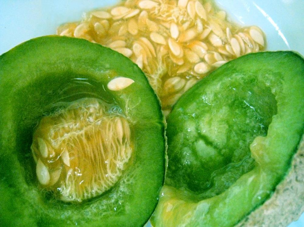 My own shot.